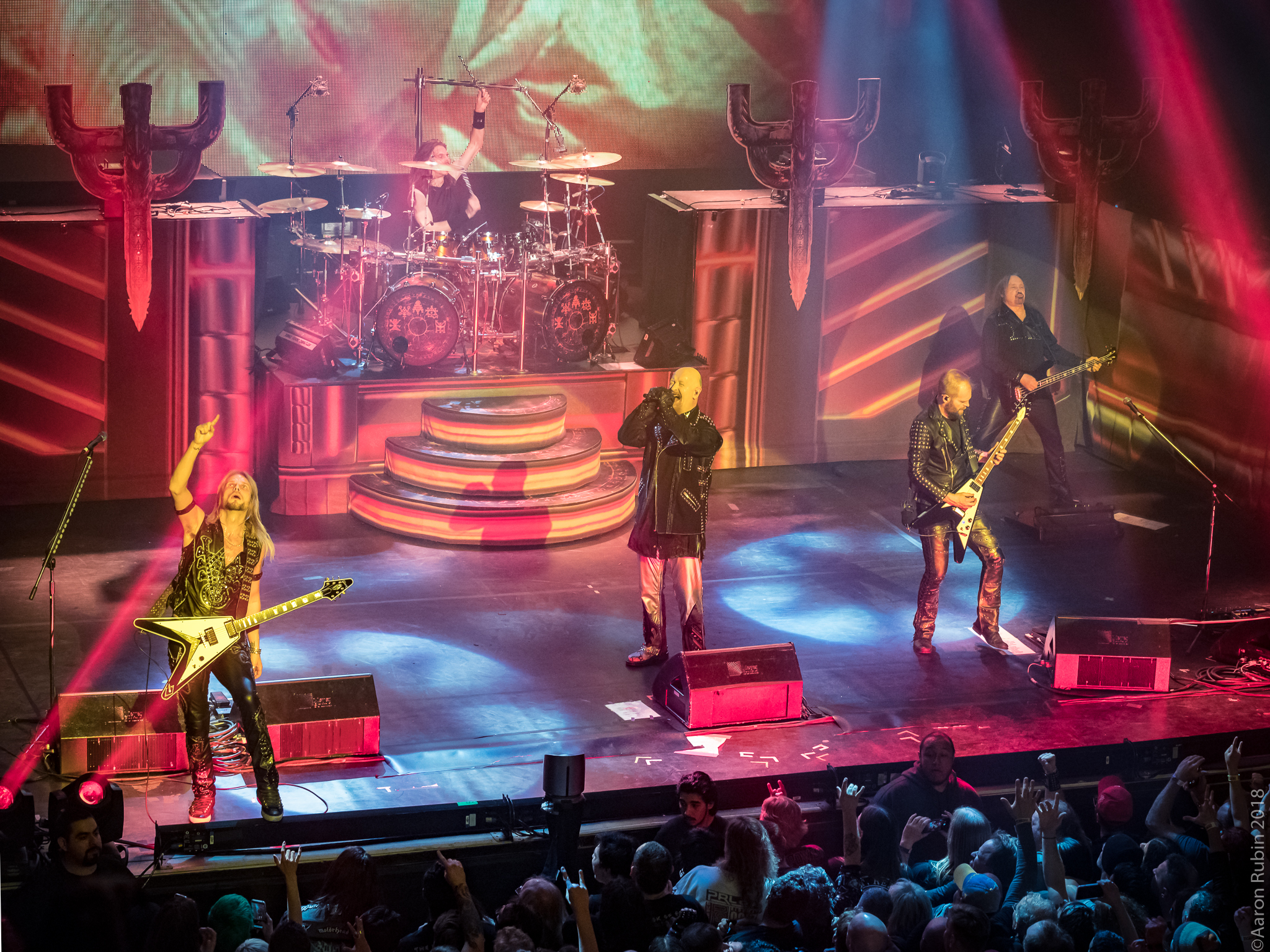 Judas Priest at The Warfield Theater in San Francisco on the Firepower tour, April 19, 2018